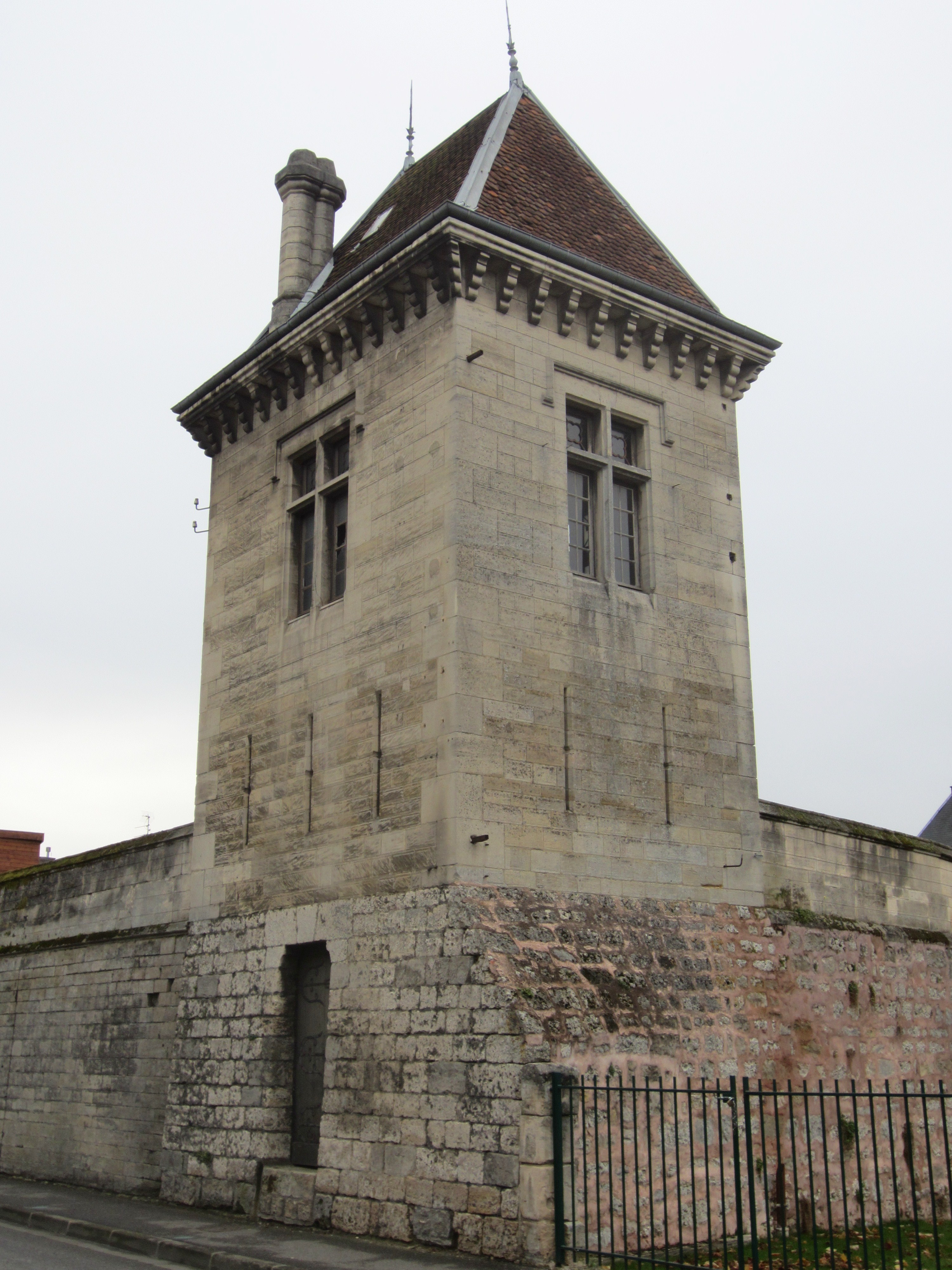 Description tour remparts Saint Dizier Date9 November 2011Sourcemon appareil photoAuthorAimelaimePermission (Reusing this file) tour remparts Saint Dizier